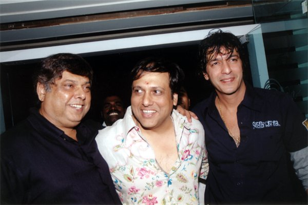 David Dhawan, Govinda, Chunky Pandey at Bobby Deol's birthday bash